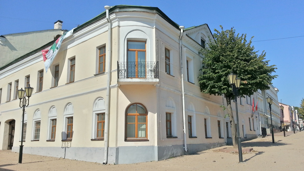 Беларуская (тарашкевіца): Будынак. г. Віцебск This is a photo of Belarusian heritage monument. Reference number: 212Г000081 ( WLM)